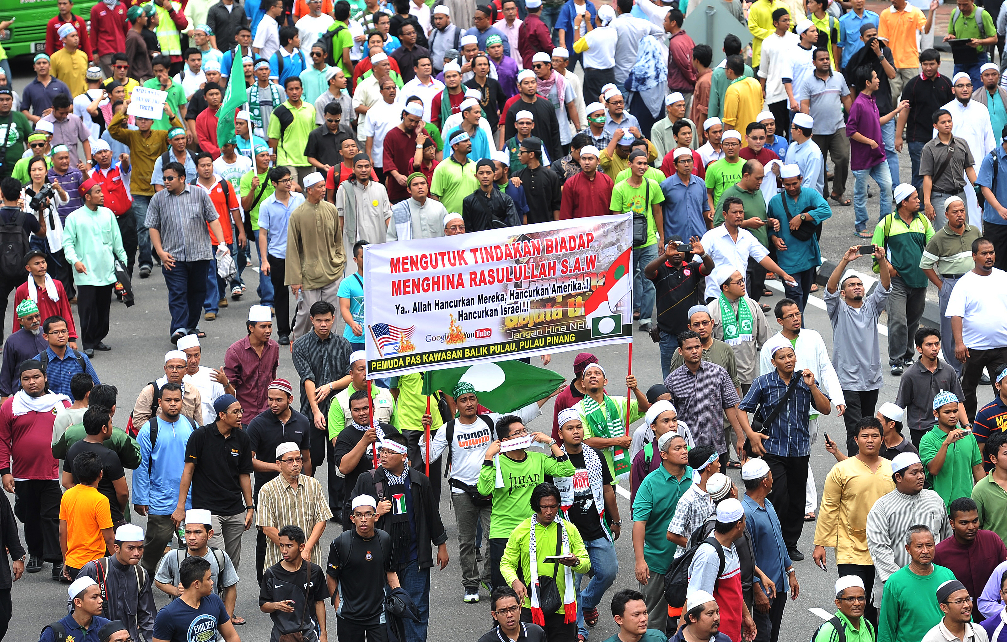 Kuala Lumpur, 21/09/2012. Malaysian Muslim demonstrators march towards the US embassy against an anti-Islam film, "Innocence of Muslims" and the publication of caricature of the Holy Prophet Muhammad..Pic FIRDAUS LATIF